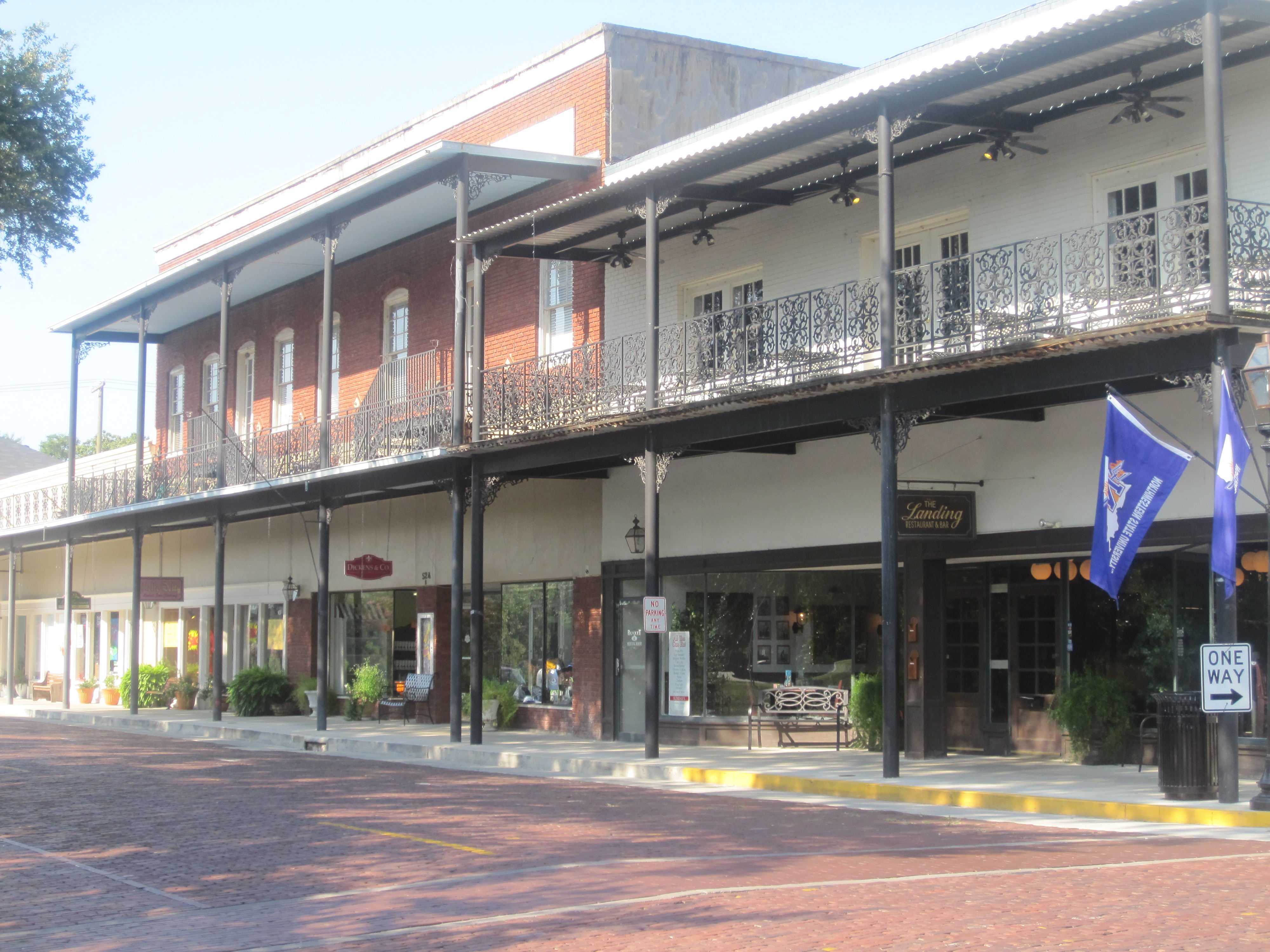 Downtown Natchitoches, showing its brick streets — in the Natchitoches Historic District, Louisiana.